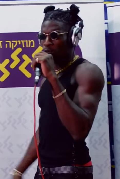 Stephane Legar in 2018